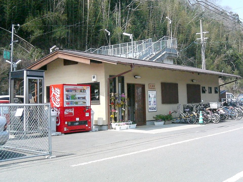 Kyushu Railway Company Inukai Station